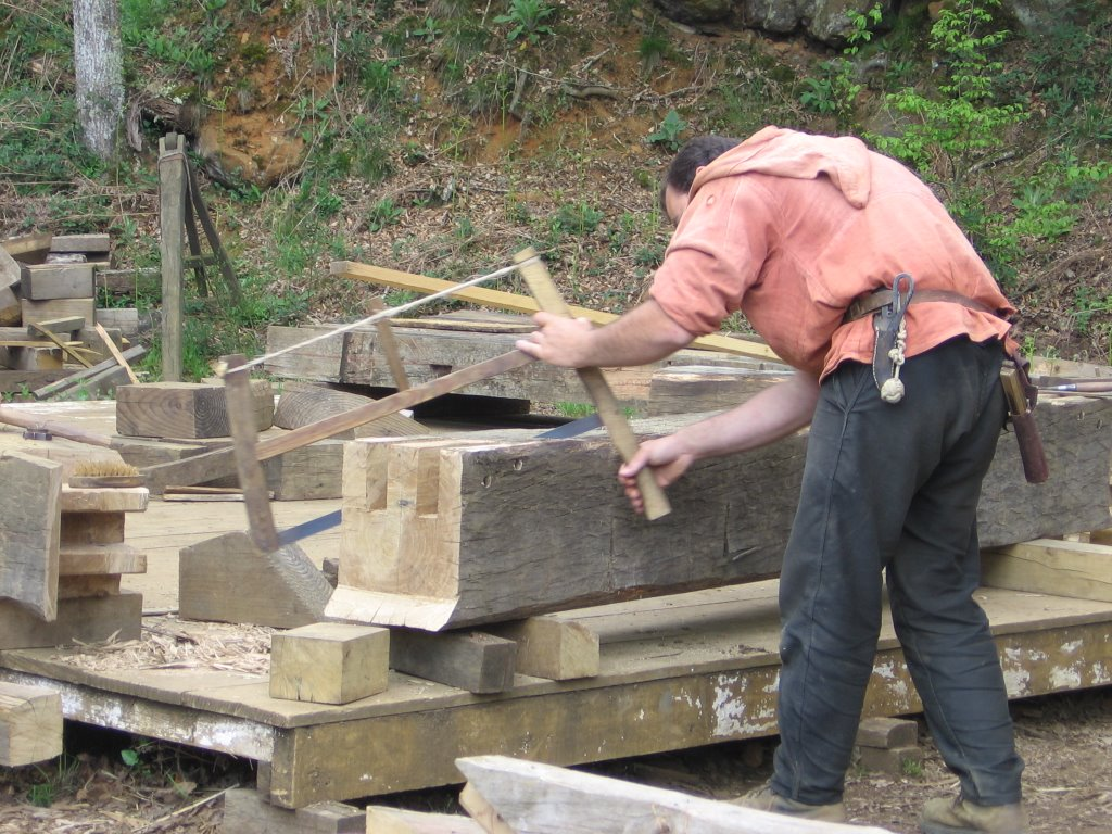 Medieval carpenter in Guédelon